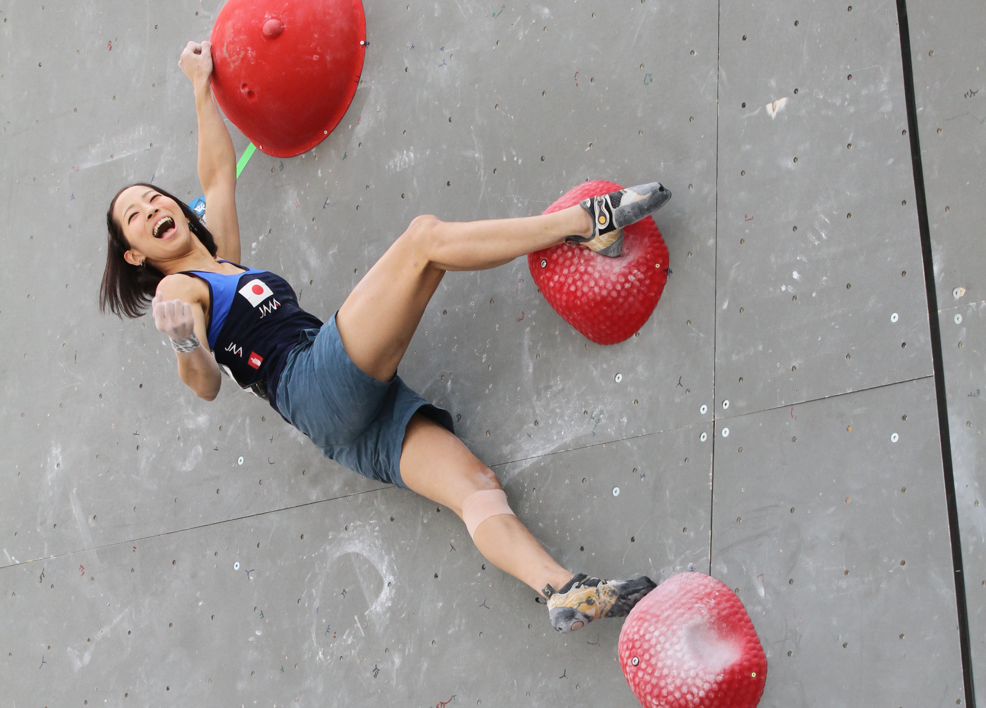 IFSC Boulder Worldcup, Munich 2015. Akiyo Noguchi (JAP)